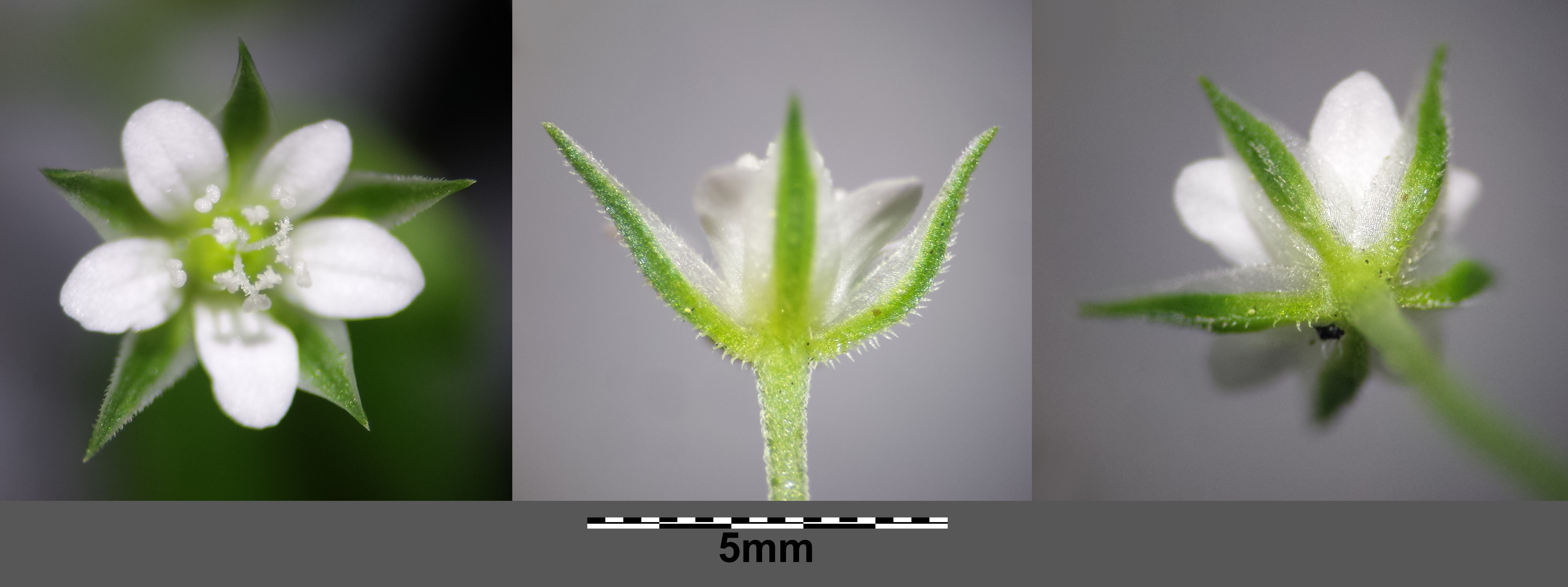 Flower Taxonym: Moehringia trinervia ss Fischer et al. EfÖLS 2008 ISBN 978-3-85474-187-9 Location: near Karnabrunner, district Korneuburg, Lower Austria - ca. 300 m a.s.l. Habitat: path within a wood